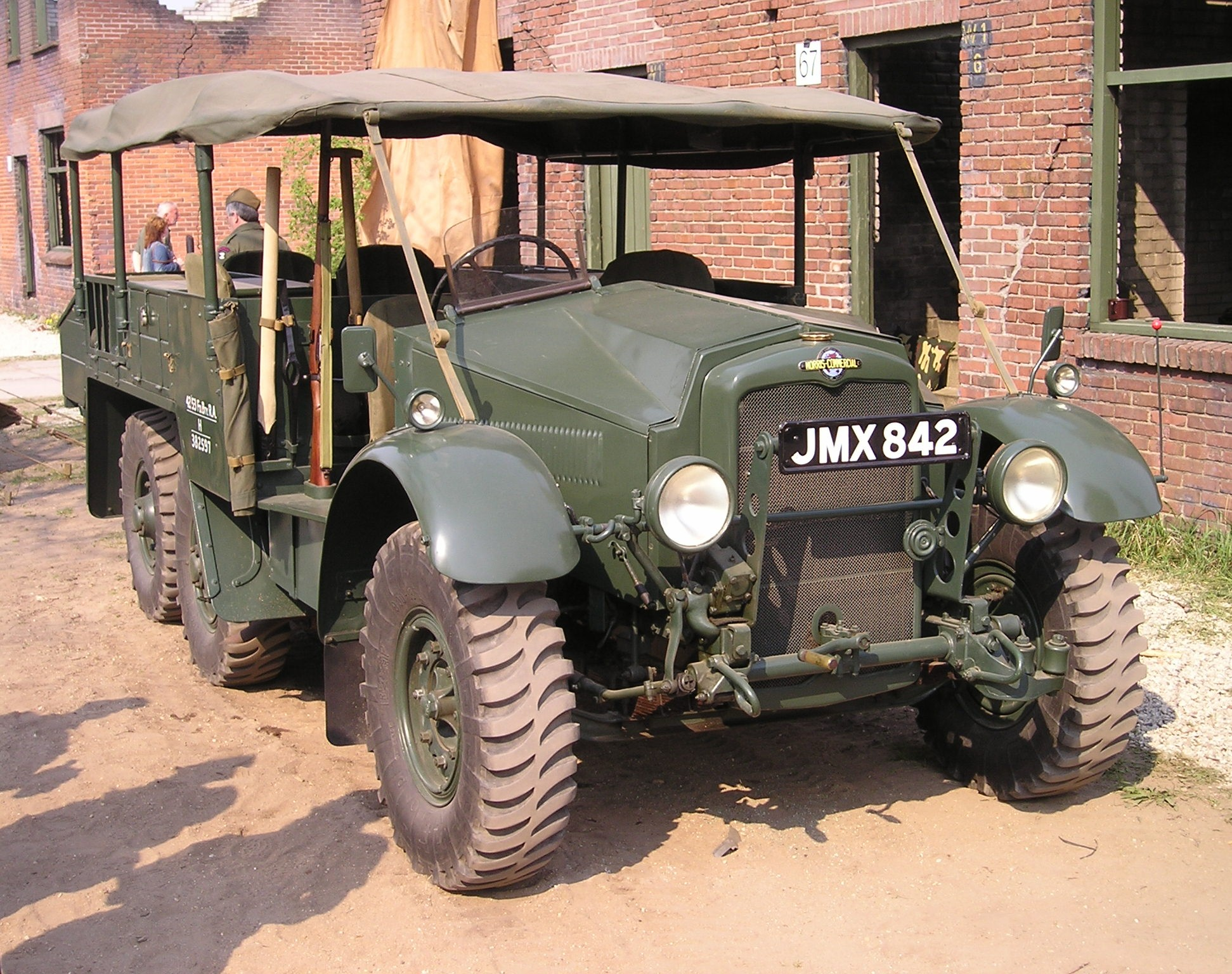 Morris-Commercial CDSW, artillery tractor from World War 2, as seen at Bridgehead, Bussum, the Netherlands. May 2006.